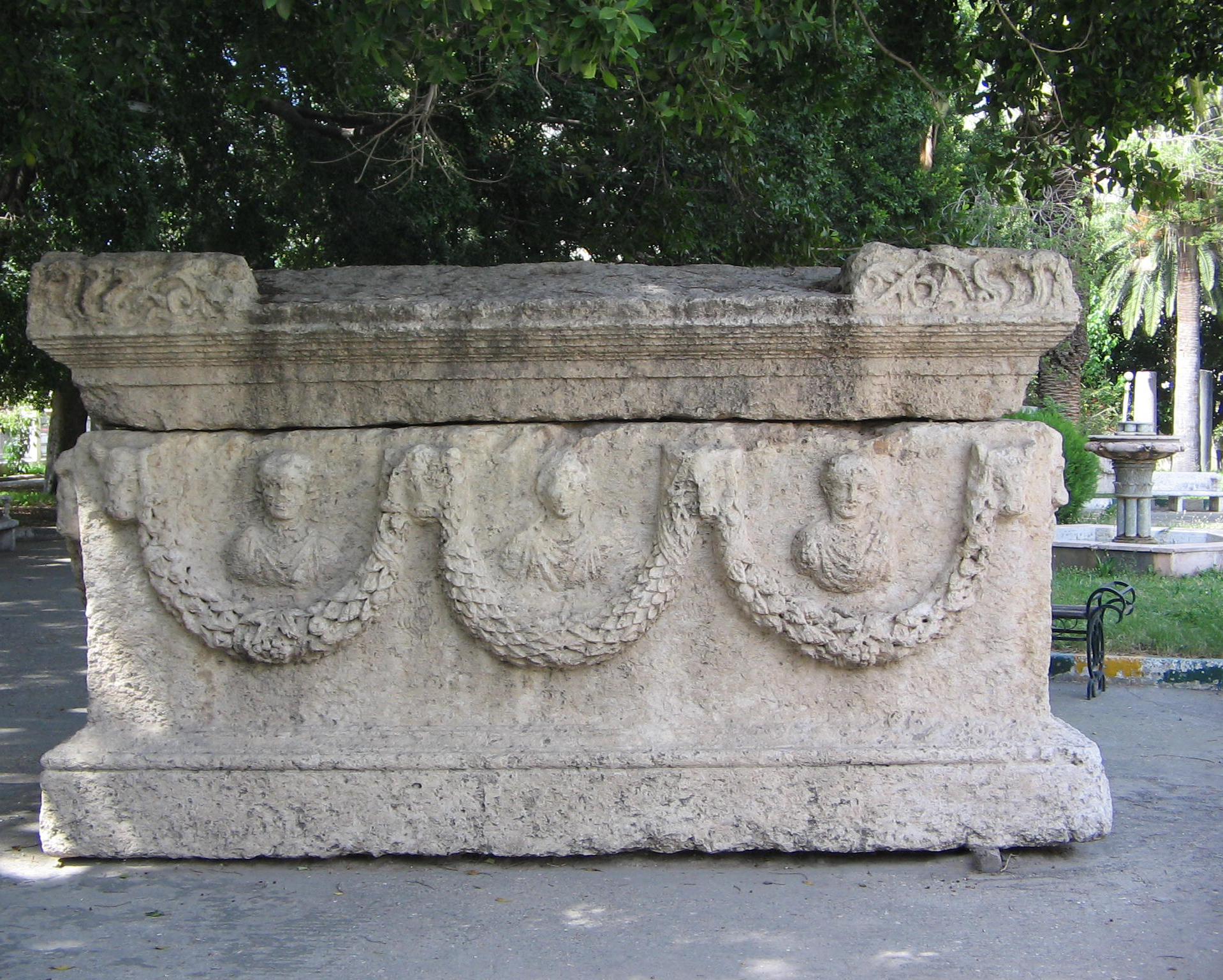 Museum courtyard, late antique sarcophagus, Latakia in 2006